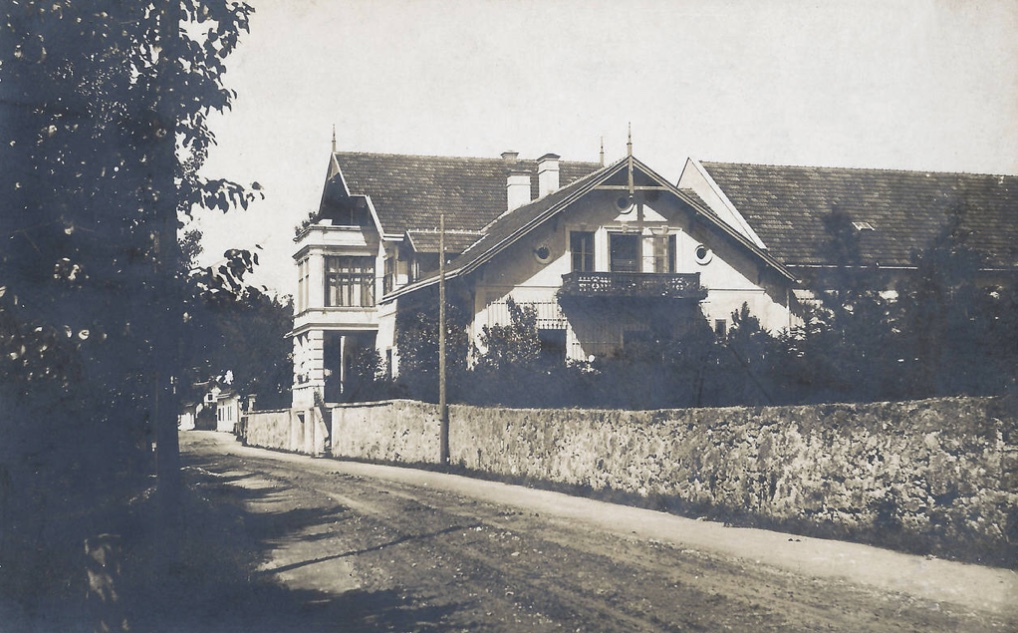 Scheibbsbachhof